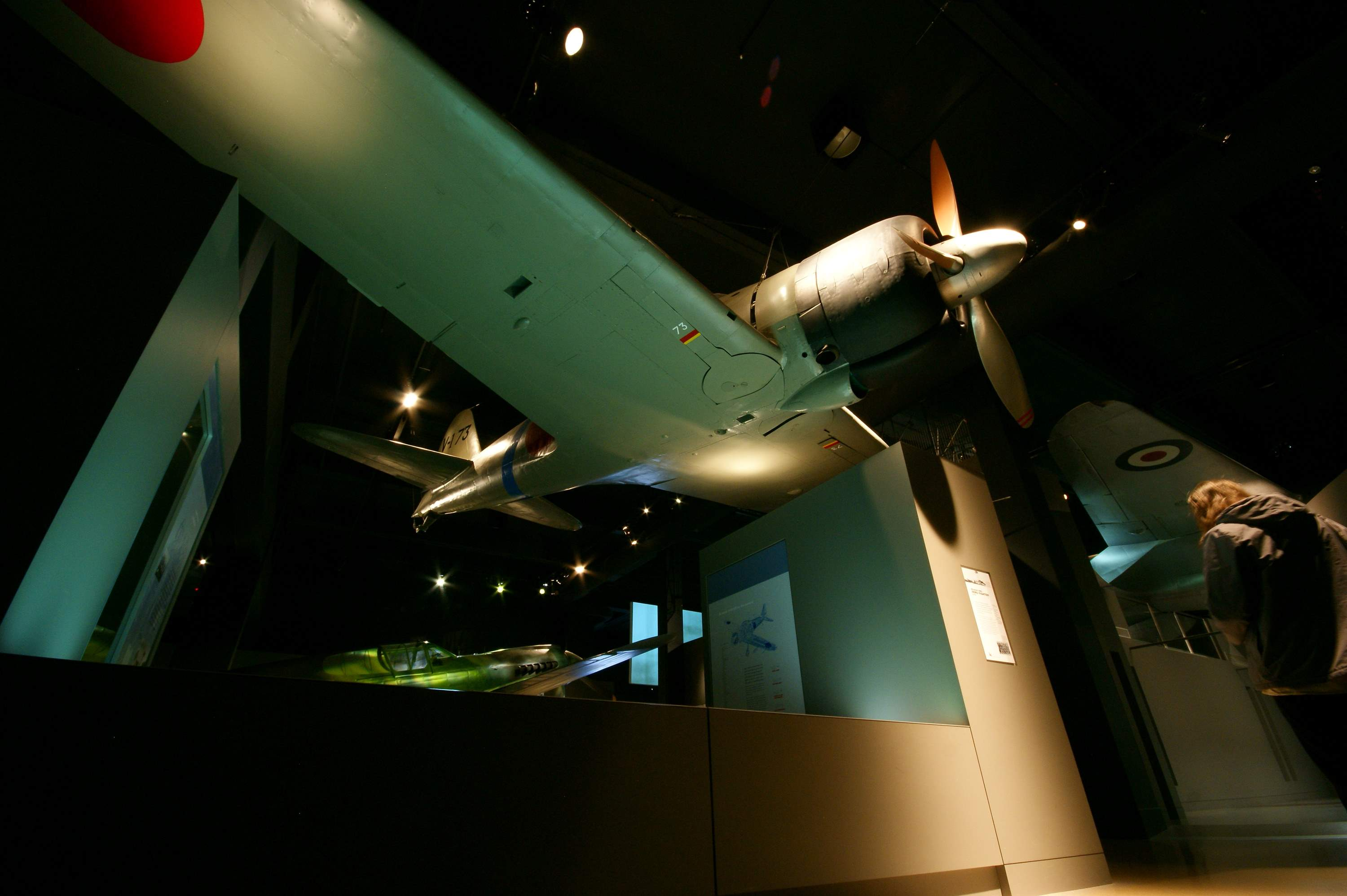 Australian War Memorial, Canberra A6M Zero